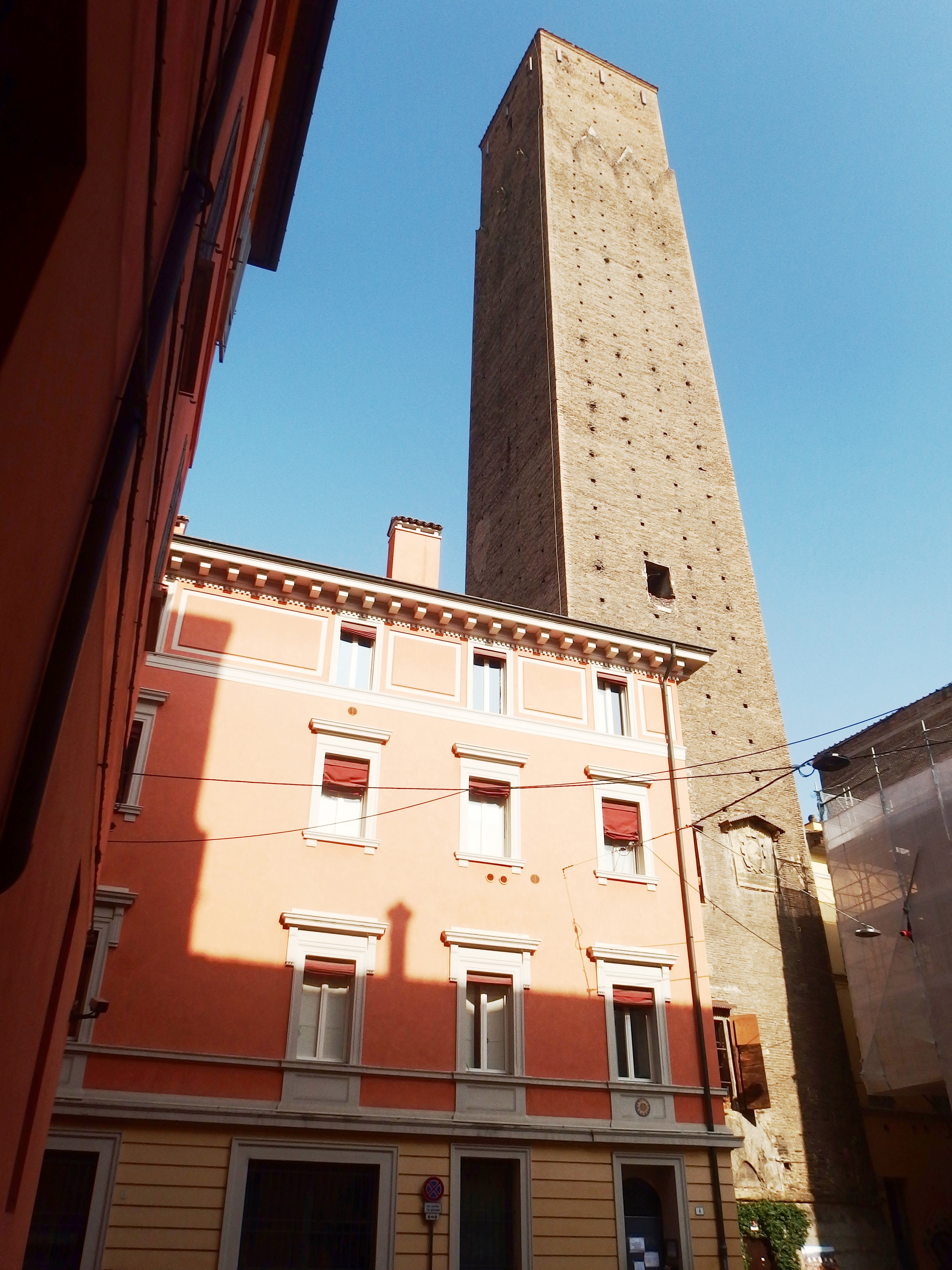 Bologna, Italy. Prendiparte Tower, today a hotel.